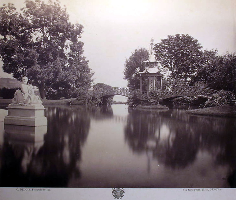 Celestino Degoix (operating from circa 1860 until 1890), "Villa Pallavicini (Pegli)".